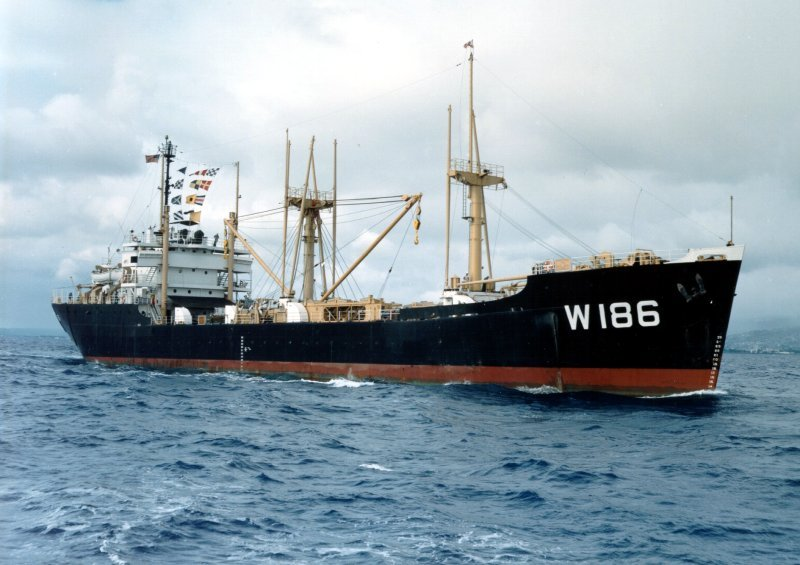 The USCGC Kukui that dropped anchor at Imnajbu Harbour in Batanes, the Philippines, in the early 50s!